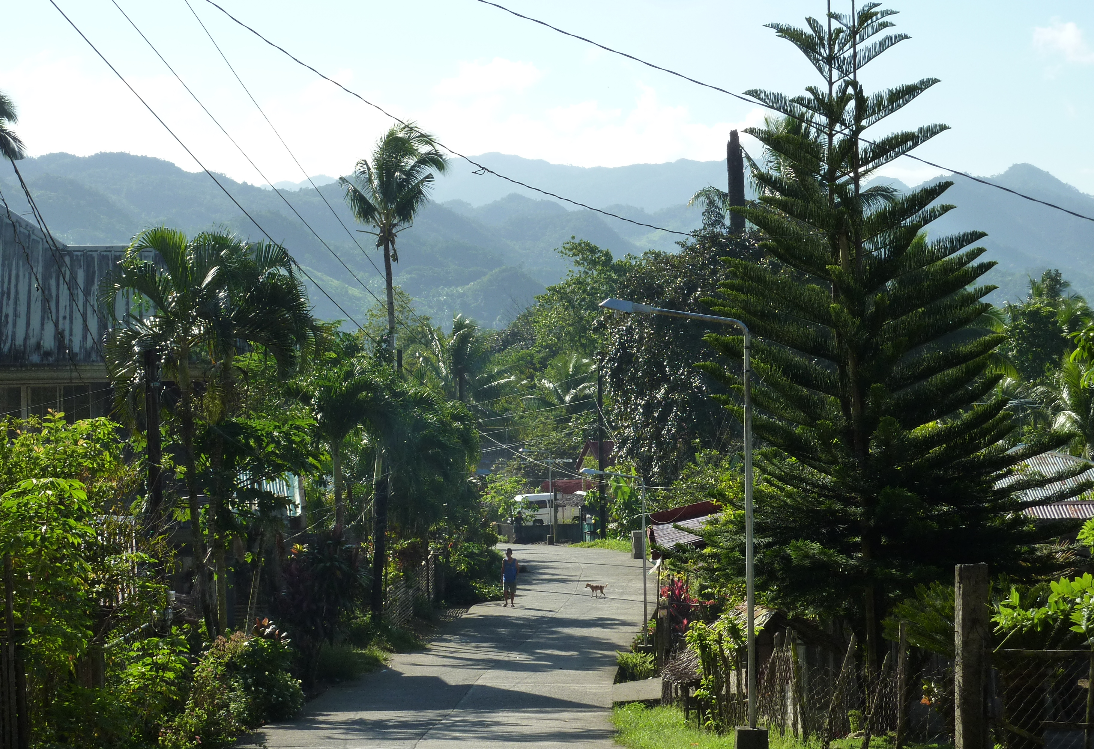 Barangay San Pablo, Tubod, Surigao del Norte. Looking east from the road to Songkoy Spring.